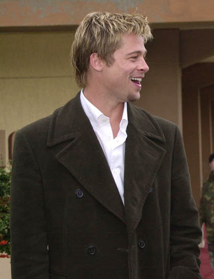 Brad Pitt, Matt Damon and George Clooney enjoy a morning laugh prior to their Dec. 7 tour of Incirlik Air Base, Turkey. The trio, along with Julia Roberts and Andy Garcia, visited the base to show their appreciation for U.S. troops overseas.